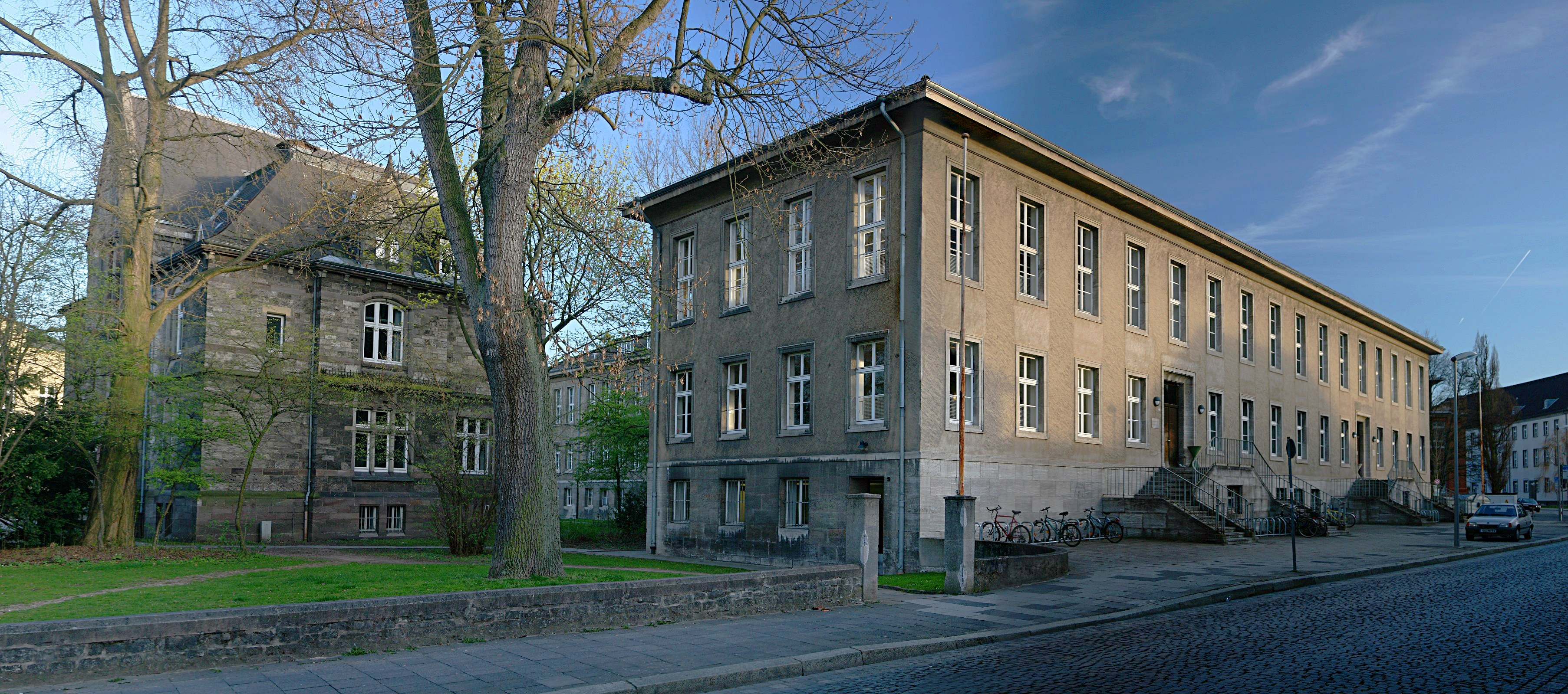 Faculty of mathematics, University of Göttingen, Bunsenstraße 3-5, Germany